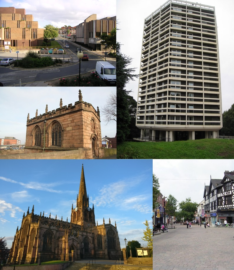 Rotherham in South Yorkshire.